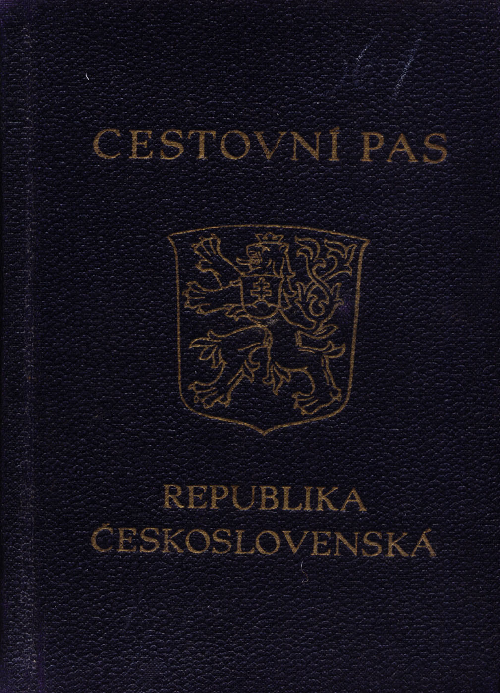 Passport of Czechoslovakia in 1947